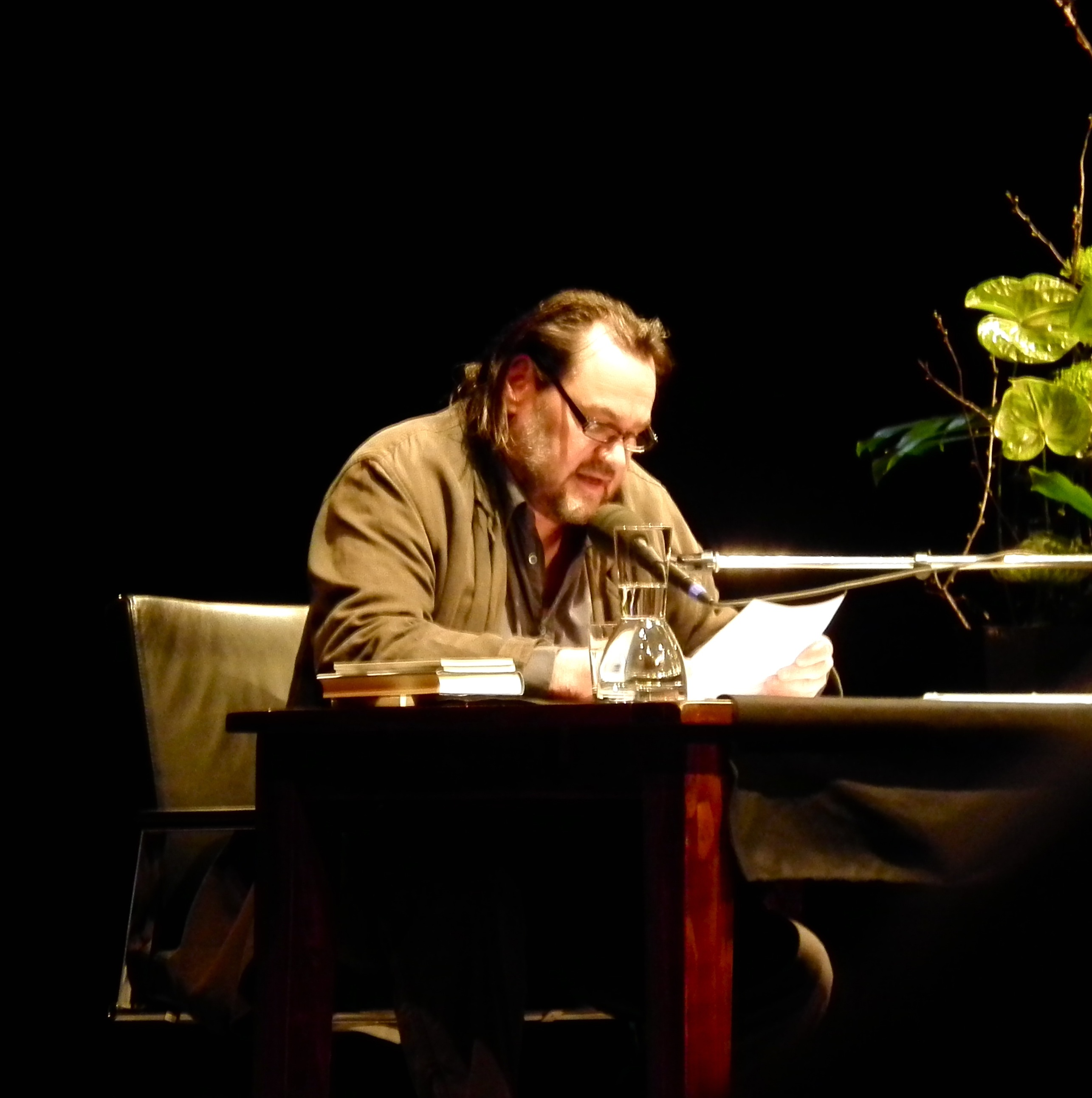 The German actor Markus John at a reading during Lit.Cologne 2012